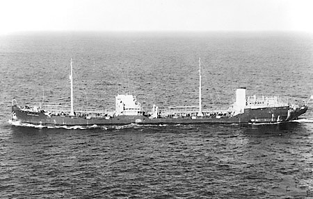 AWM Caption: Aerial port side view of the 8,237 ton Netherlands tanker Manvantara, which was bombed and sunk by Japanese aircraft in the Banka Strait on 13 February 1942, while attempting to escape from Palembang.